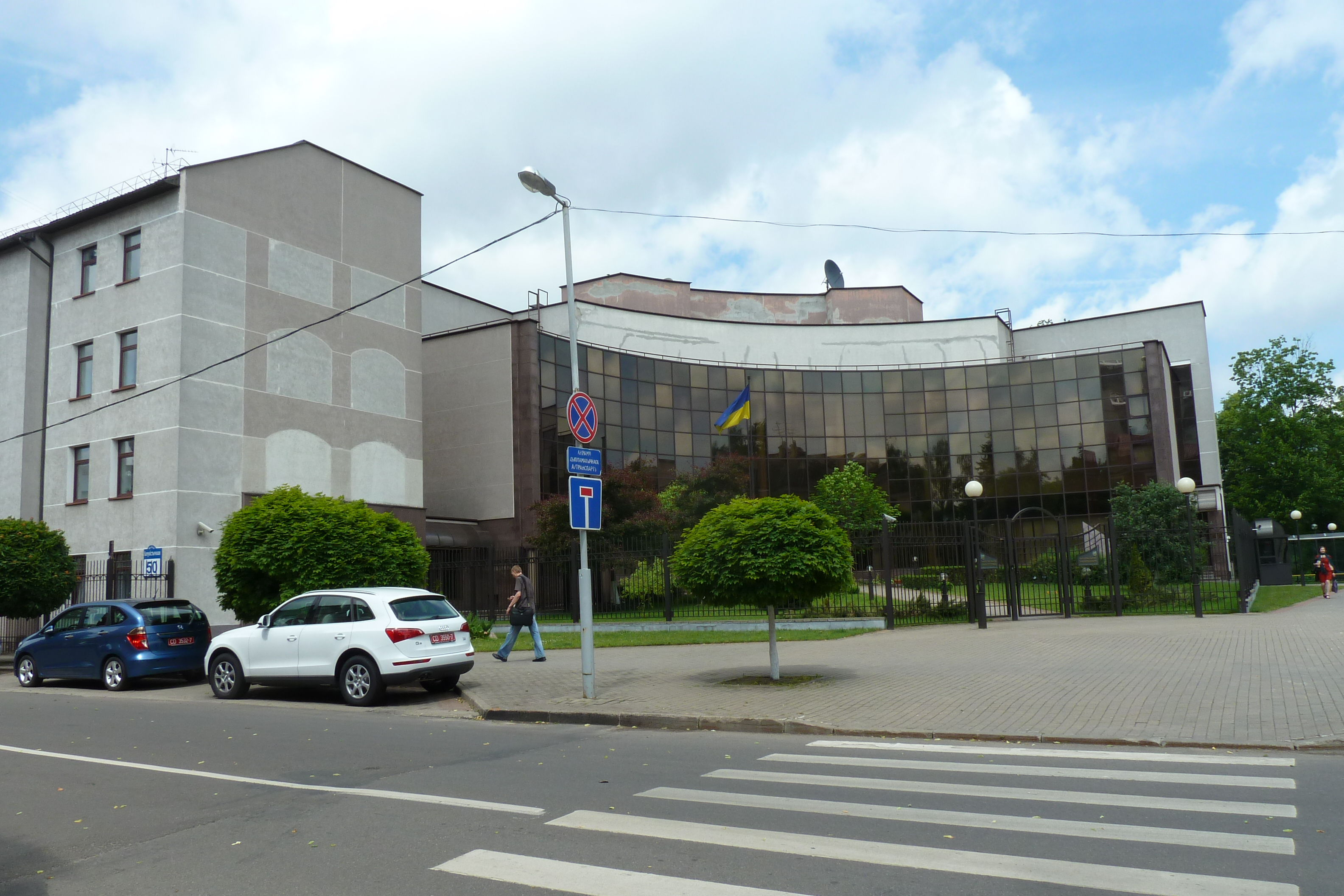 Ukrainian embassy at Ulitsa Starovilenskaya 51 in Minsk, Belarus